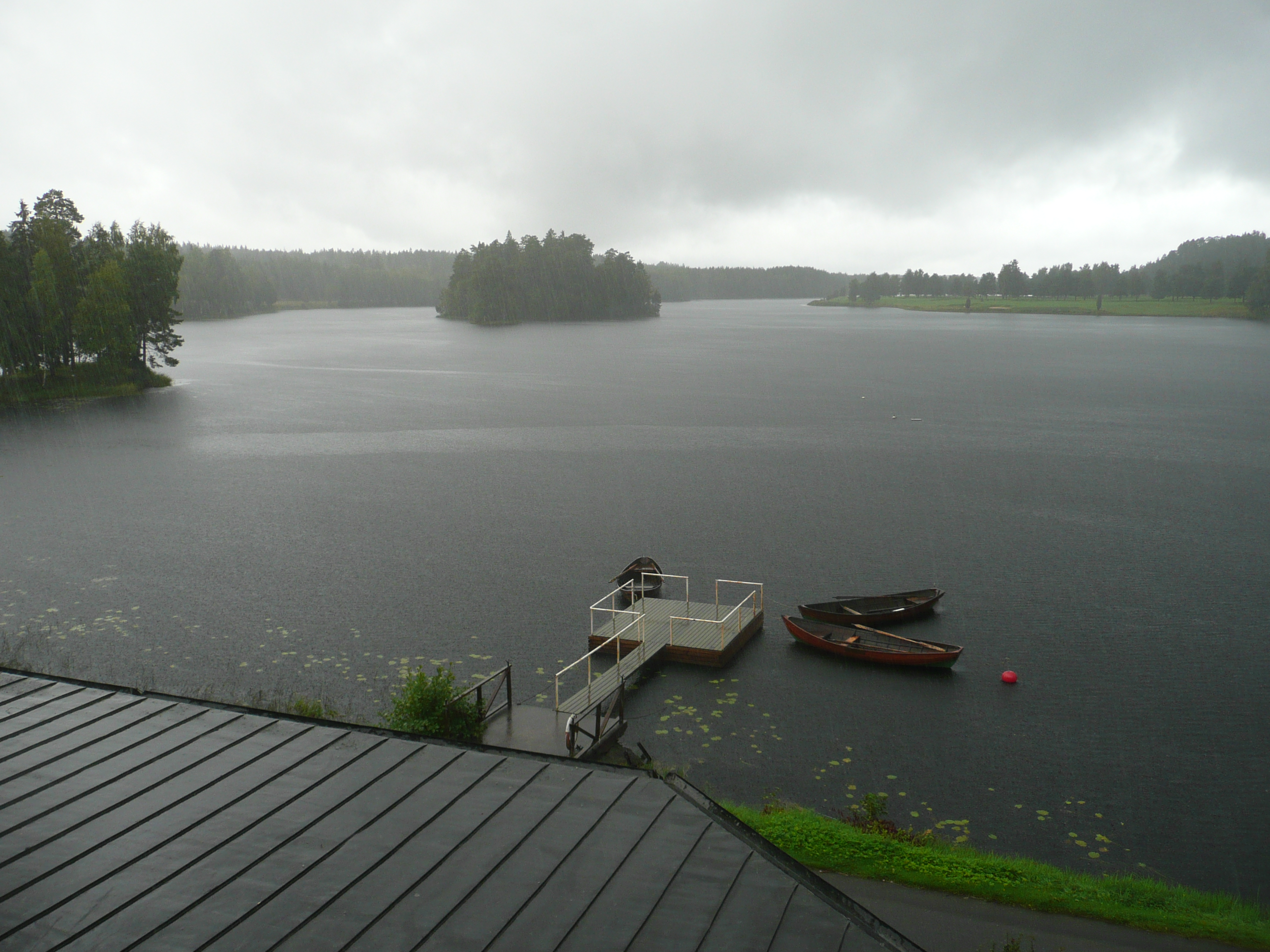 View of the lake Hokasjön, taken from Hooks Herrgård